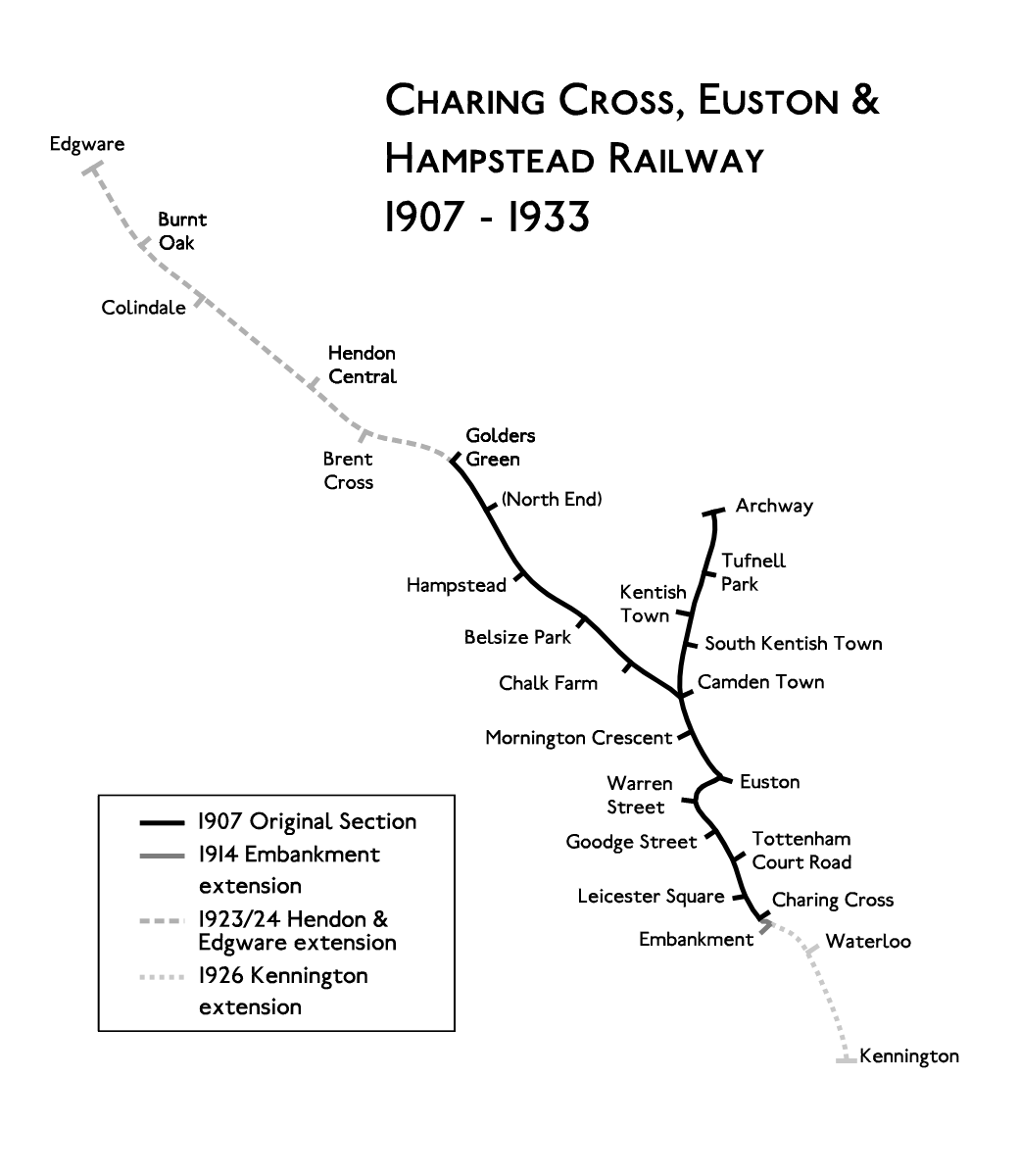 Geographic Map of the Charing Cross, Euston & Hampstead Railway (CCE&HR). See also Image:C&SLR.svg based on Image:Northern Line.svg by User:Ed g2s